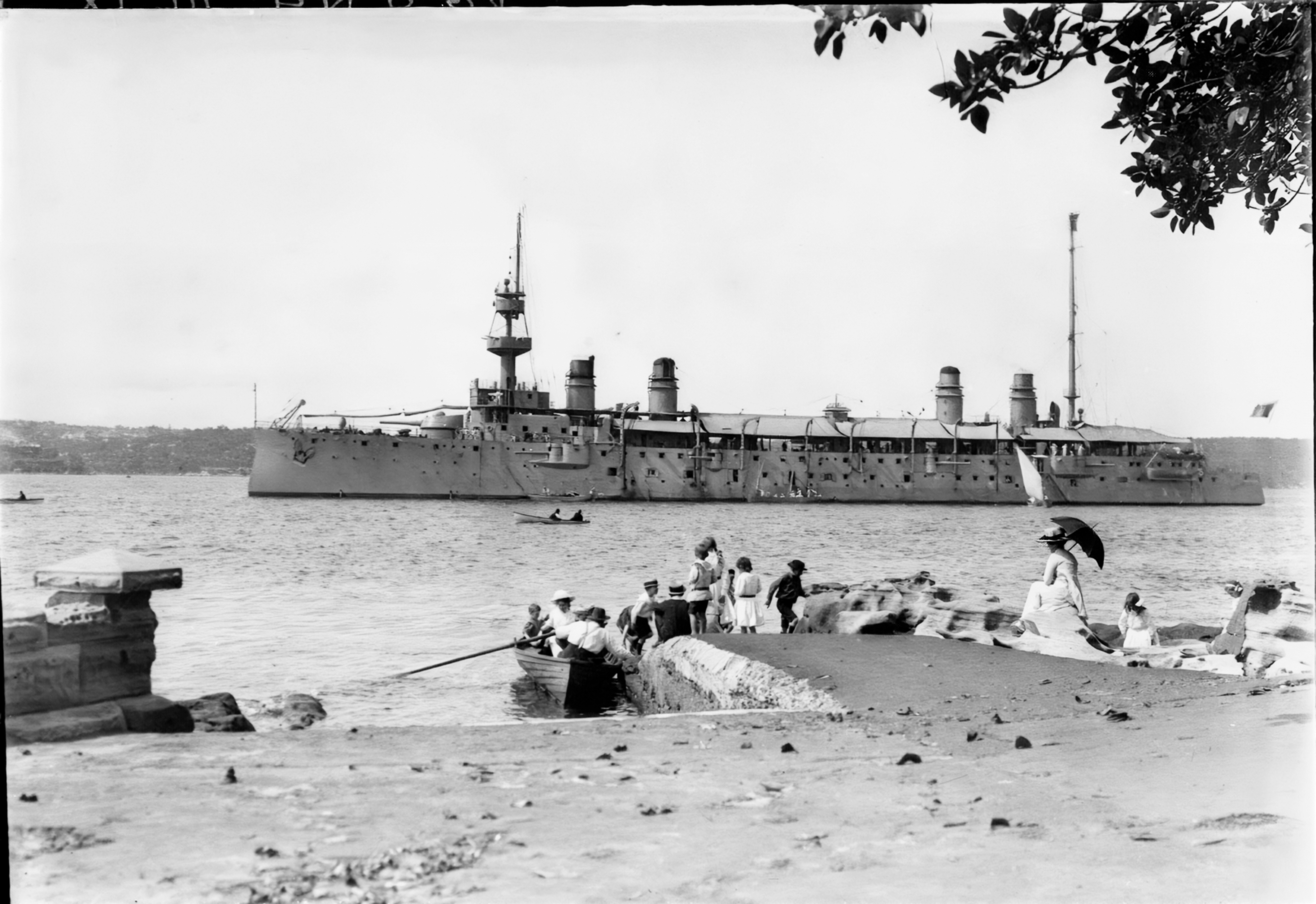 Format: Glass negative Find more detailed information about this photograph: .au/item/itemDetailPaged.aspx?itemID=8370 Search for more great images in the State Library's collections: .au/search/SimpleSearch.aspx From the collection of the State Library of New South Wales